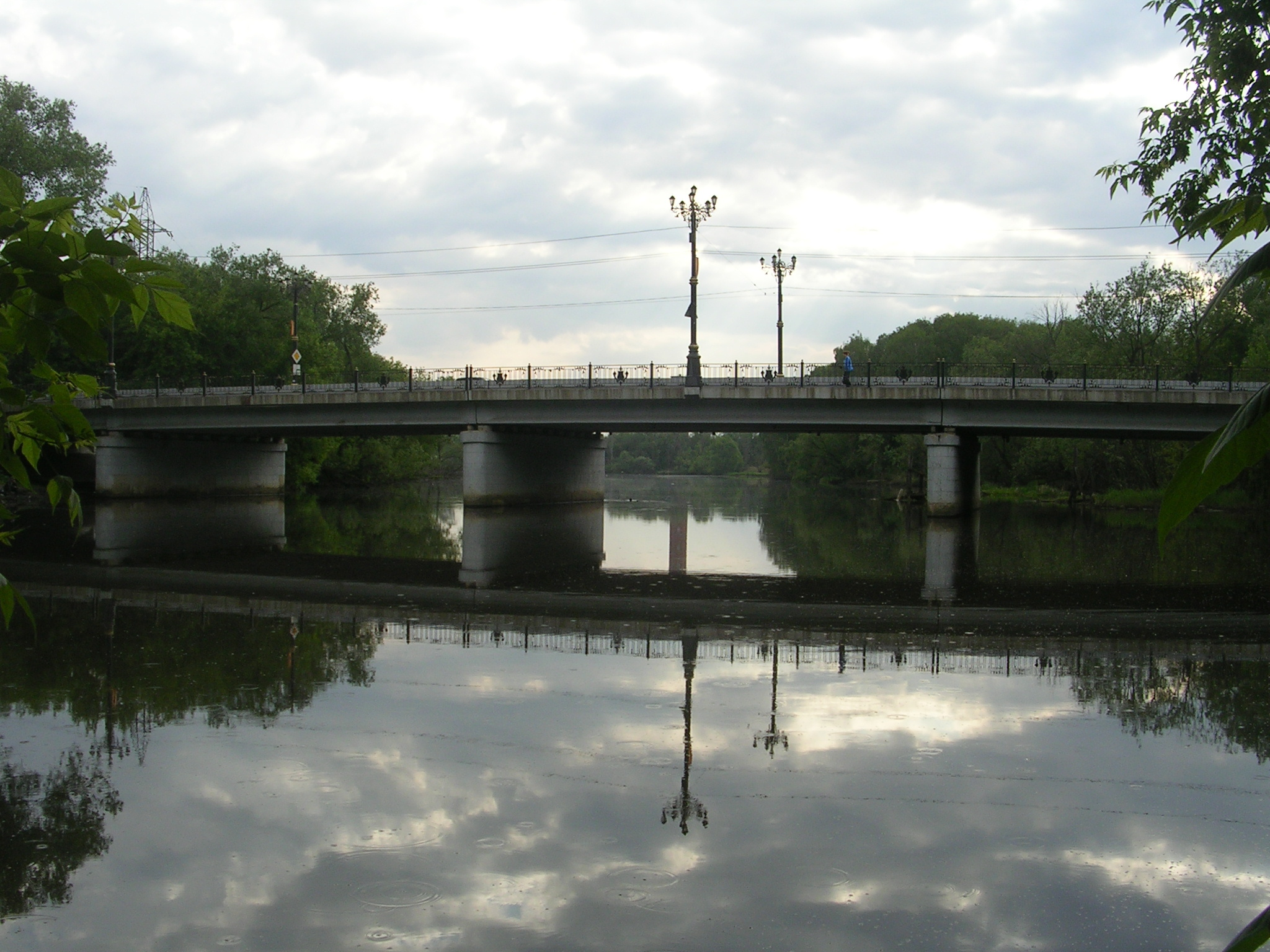 Bridge over the Klyazma in Zaharovo district of Noginsk